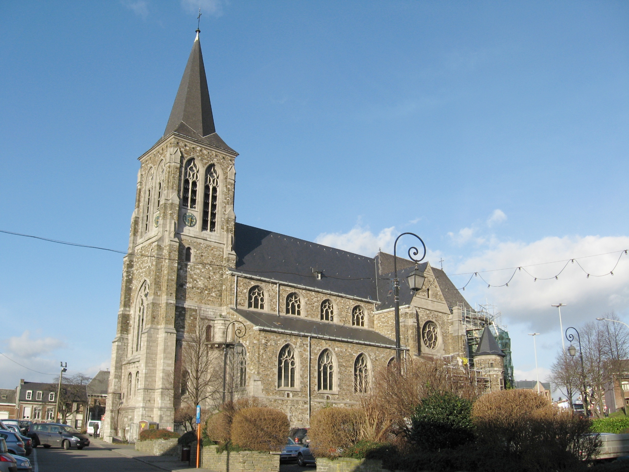 Church of Saint Martinin Visé, Liège, Belgium